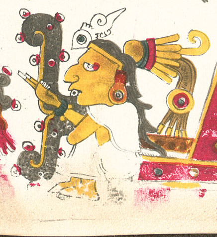 A drawing of Tecciztecatl, one of the deities described in the Codex Borgia